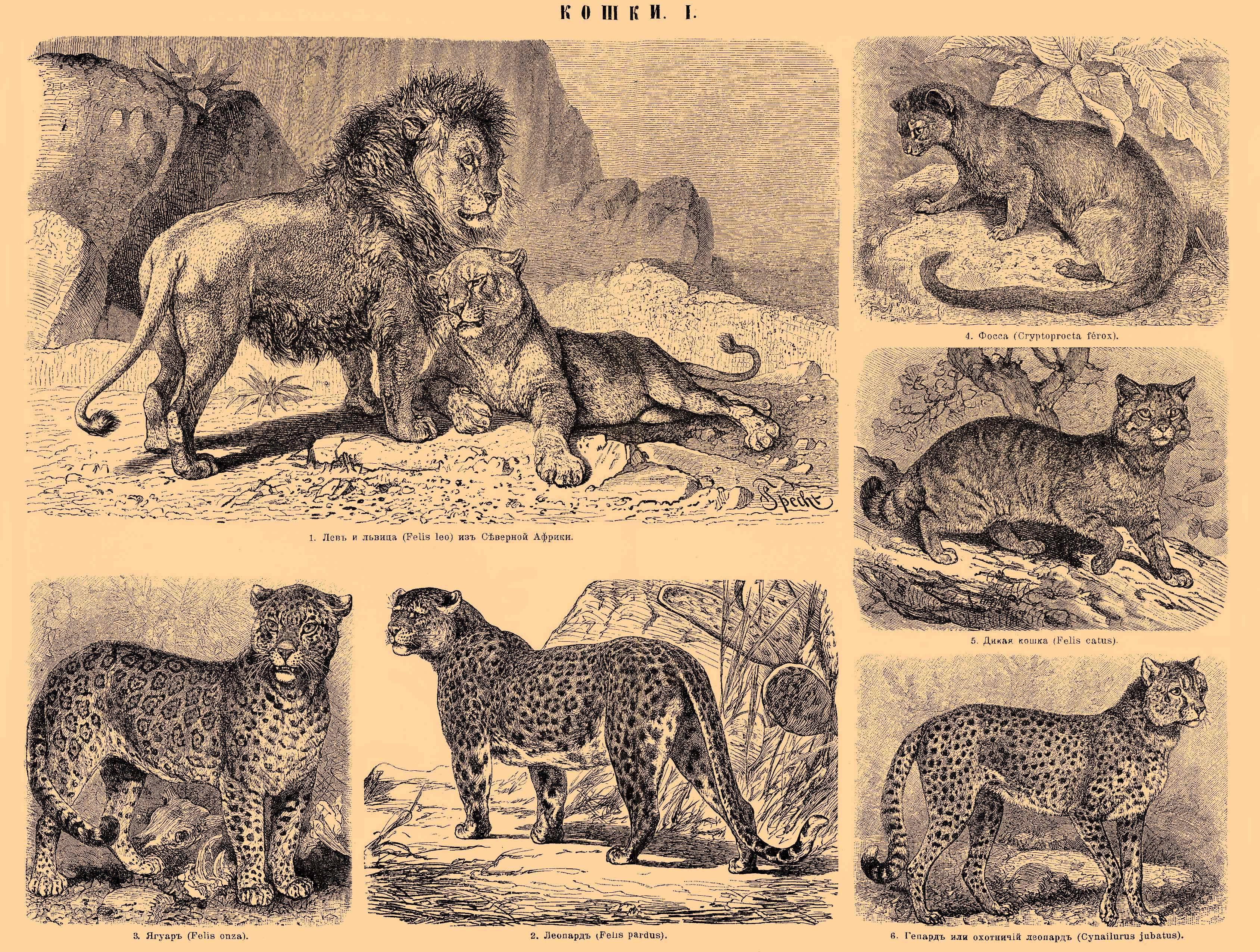 Illustration from Brockhaus and Efron Encyclopedic Dictionary (1890—1907)